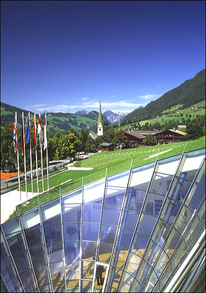 Congresscentrum Alpbach